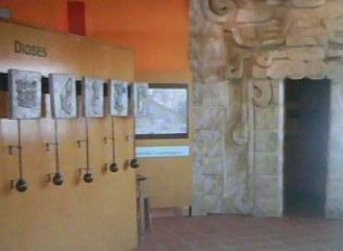 Casa K'nich museum Copán Ruinas, Honduras